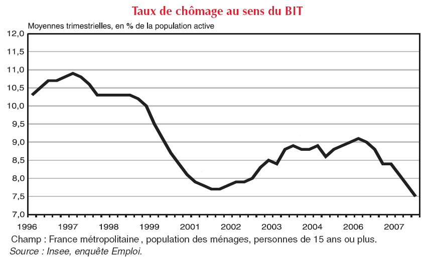 unemployment rate in France